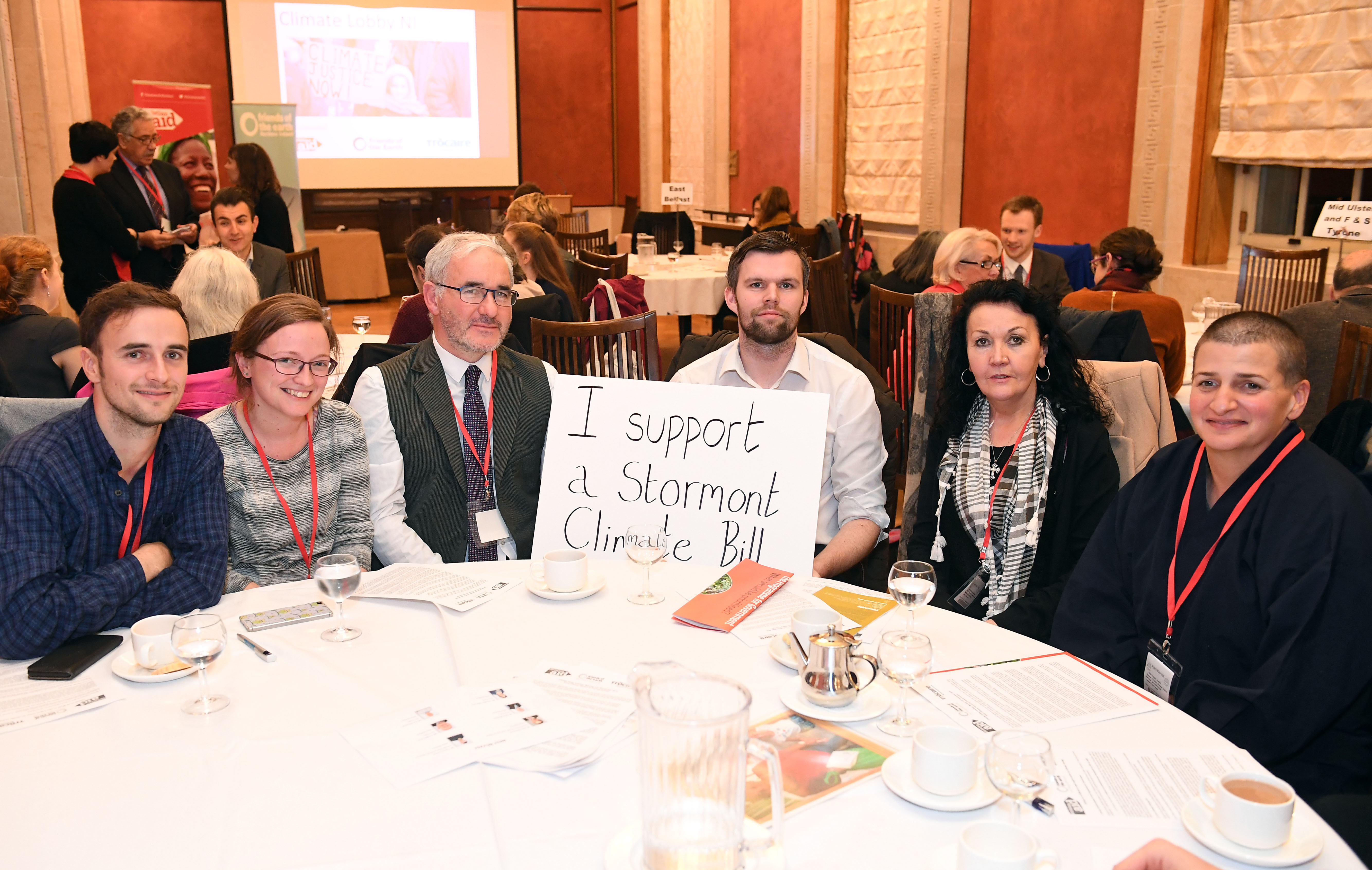 Gerry Carroll in 2016